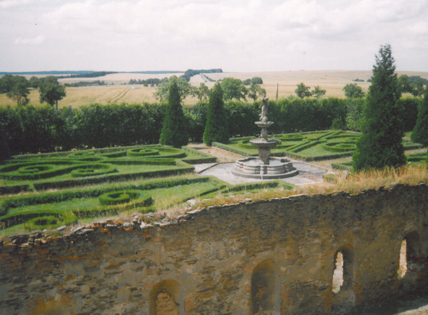 Castle Kaceřov - the Garden à la française